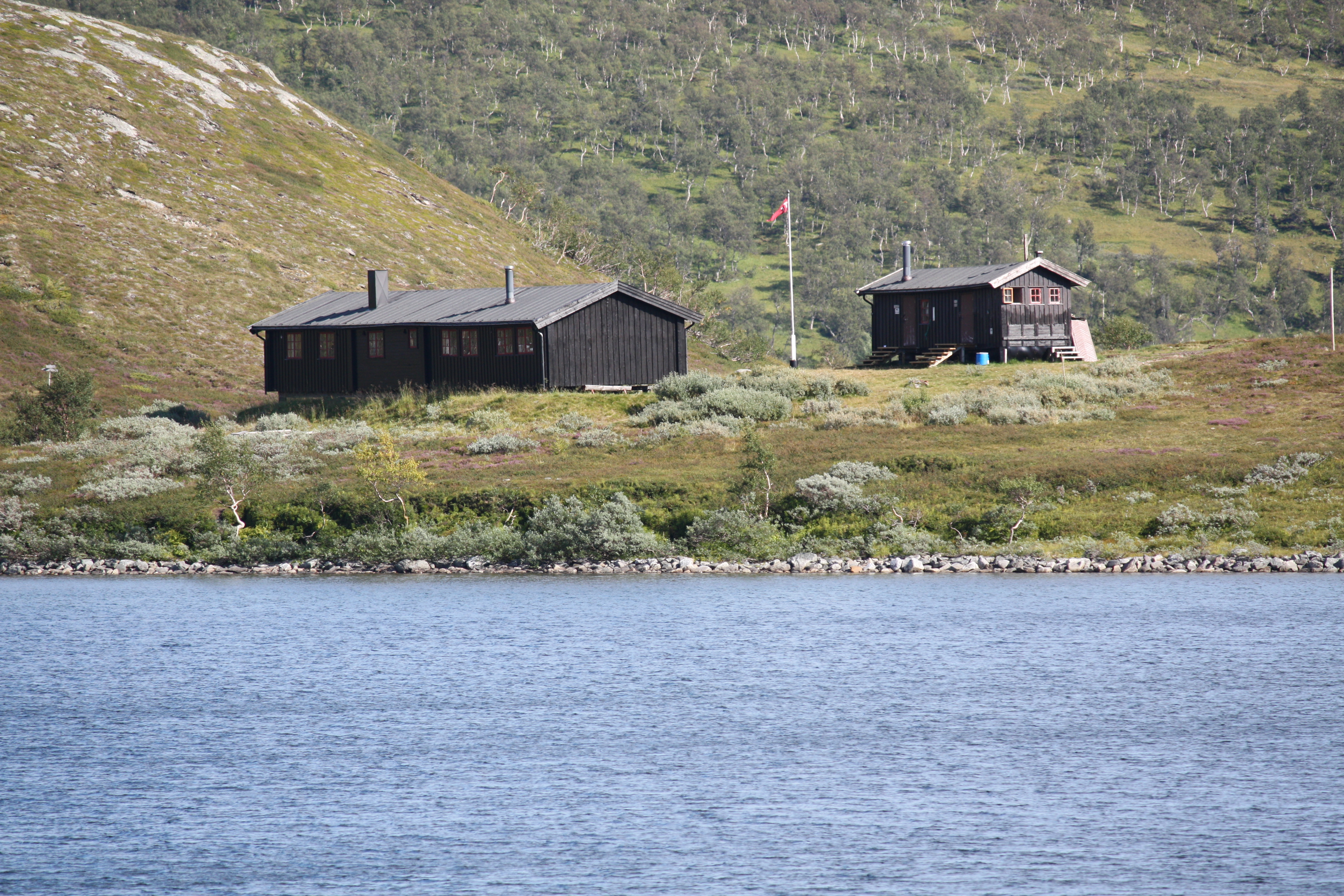 Ramsjøhytta in Tydal, Norway